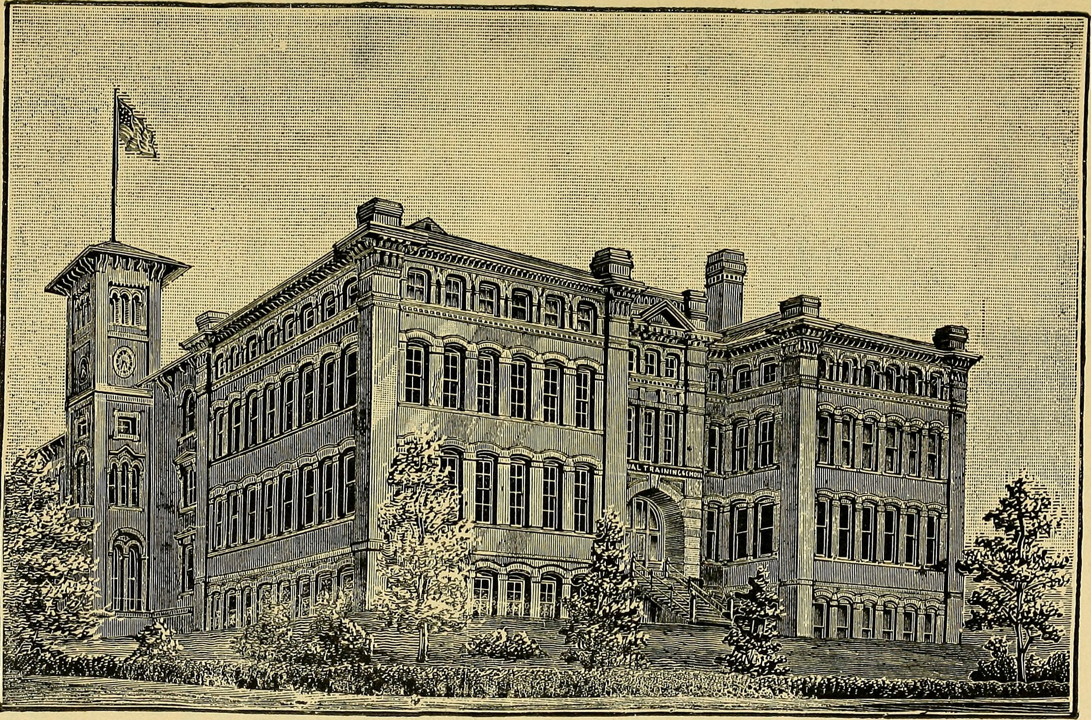 Title: The manual training school, comprising a full statement of its aims, methods, and results, with figured drawings of shop exercises in woods and metals Year: 1906 (1900s) Authors: Woodward, Calvin Milton, 1837-1914. (from old catalog) Subjects: Manual training. (from old catalog) Publisher: Boston, D. C. Heath & co. Text Appearing Before Image: Fig. 2. Chicago Manual Training School. shows a list of 190 students. Fig. 2 gives a view of the build-ing of the Chicago school.^ Manual training was introduced into the high school of EauClaire, Wisconsin, in 188-1. J For the record of its graduates see Chapter V. Tlie engraving of the Chicago Manual Training School, was made from adrawing of the building made by a pupil of that school from actual measurementsmade by himself. Chap.!.) THE SCOTT MANUAL TRAINING SCHOOL. 13 The Scott Manual Training School was organized as apart of the high school of Toledo in 1884. A picture of the Text Appearing After Image: manual portion of the building is shown in Fig. 3. For floorplans, etc., of the Toledo School, see Chapter XV. 14 THE GROWTH OF THE MANUAL ELEMENT. (Chap. L Manual training was introduced into the College (highschool) of the City of New York in 1884. The Philadelphia Manual Training School, a public highschool, was opened in September, 1885. The Omaha high school introduced manual training in 1885. The Grammercy Park Tool-House, New York City, wasopened in 1884. The Manual Training School of Denver University wasopened in September, 1885, as a preparatory school. In 1886,tuition in it was made free to Colorado boys. Dr. Adlers Workingmans School for poor children has forseveral years taught manual training to the very lowest grades.^ Swathmore College, near Philadelphia, has for two years hadregular manual training. The Cleveland Manual Training School was incorporated in1885, and opened in connection with the city high school,in 1886. New Haven, which had for some time encouraged the